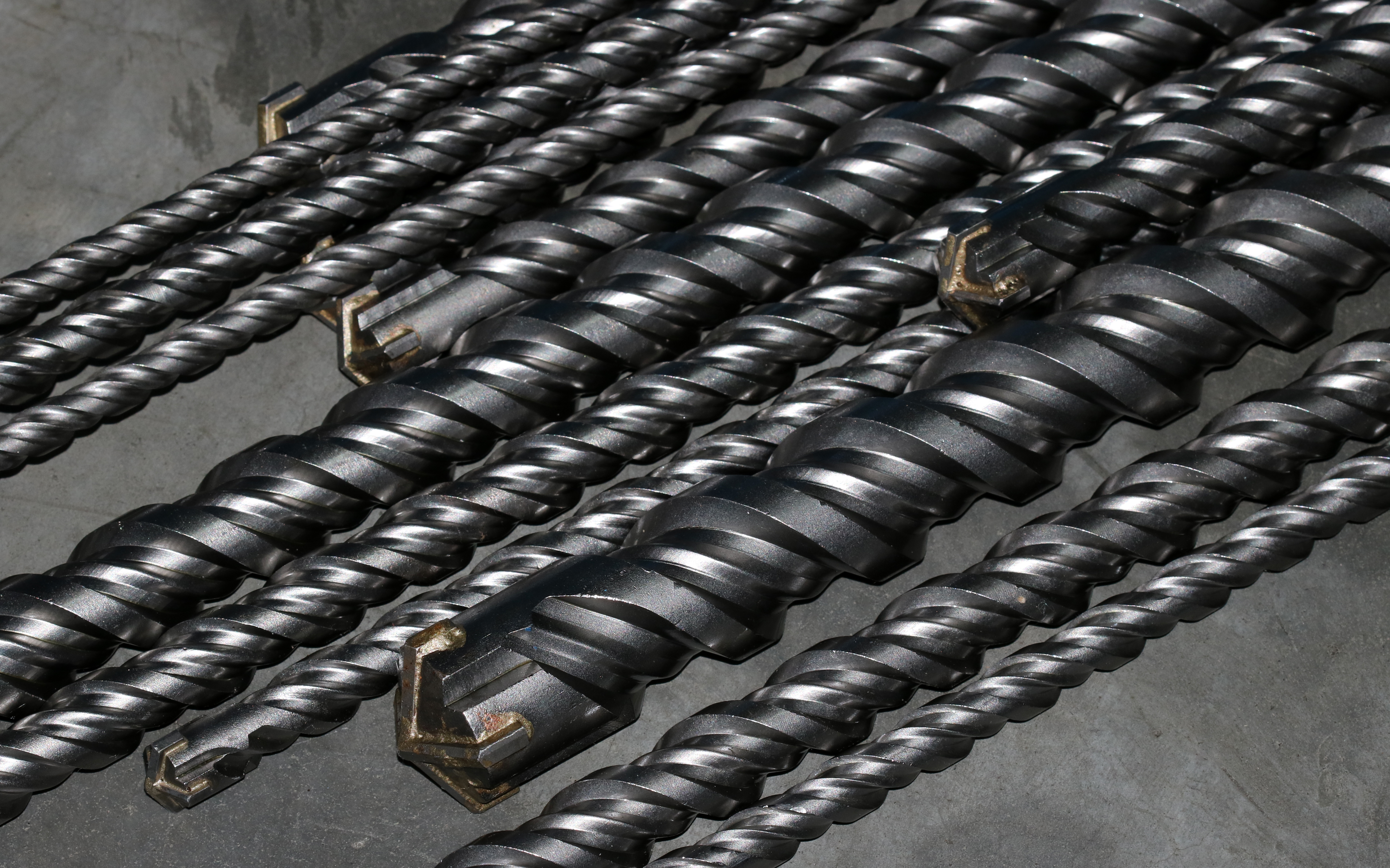 A set of drill bits in a workshop. Ukraine